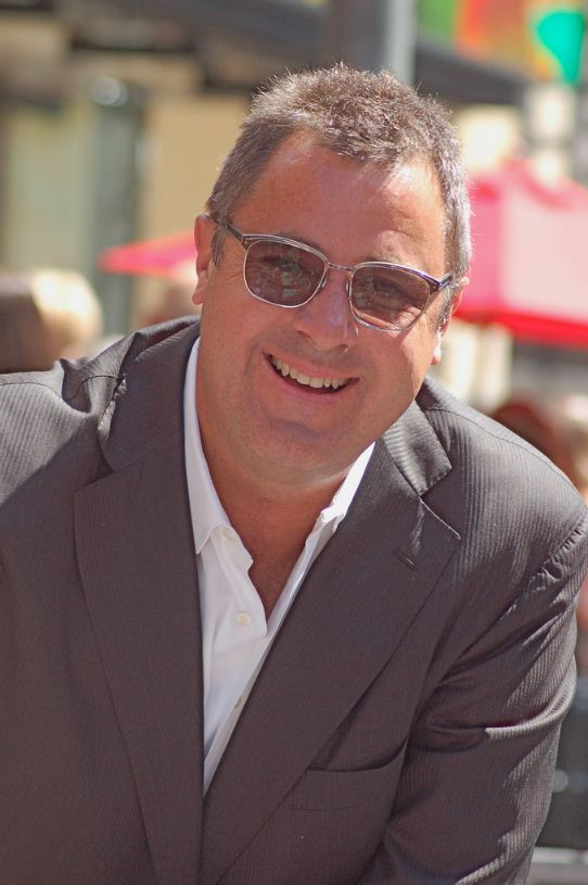 Vince Gill at a ceremony to receive a star on the Hollywood Walk of Fame.